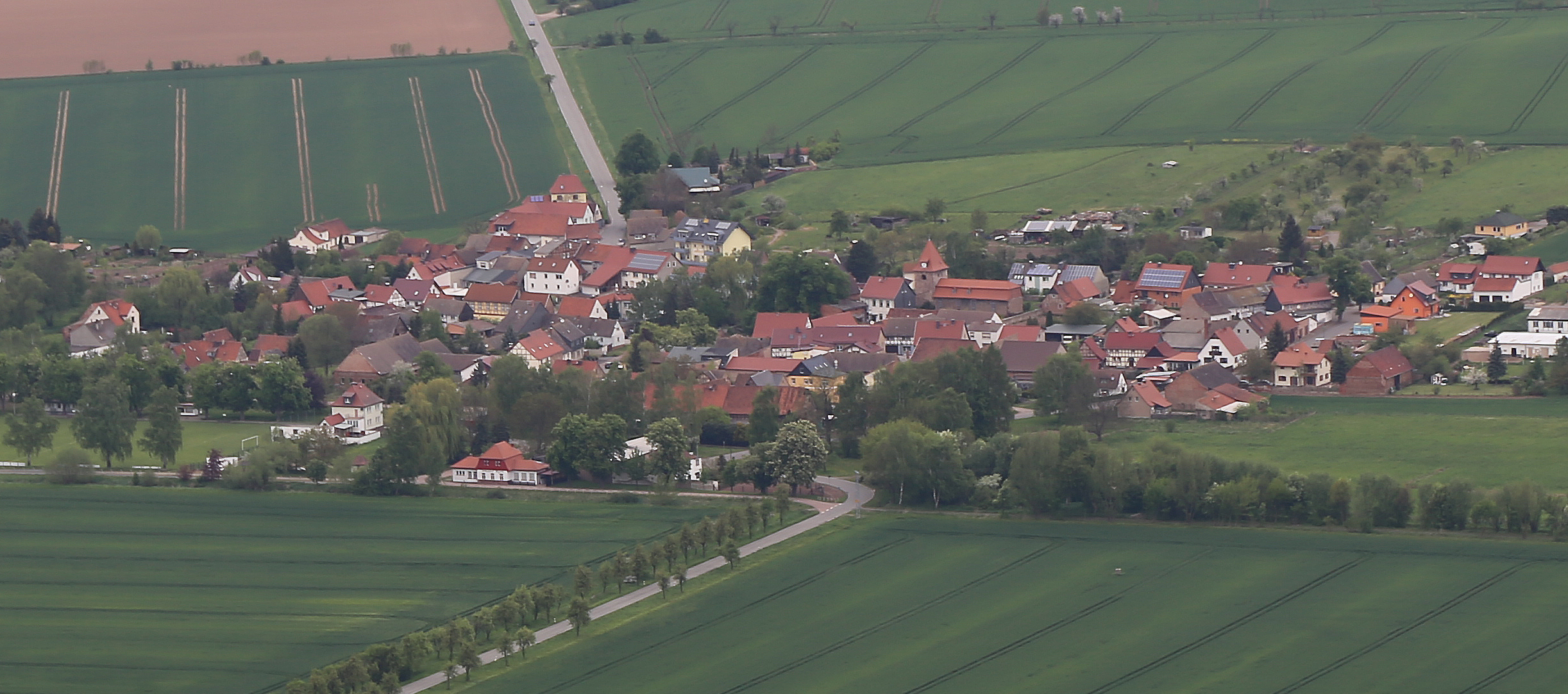 Sittendorf (Kelbra), view from the Kyffhäuser over Sittendorf